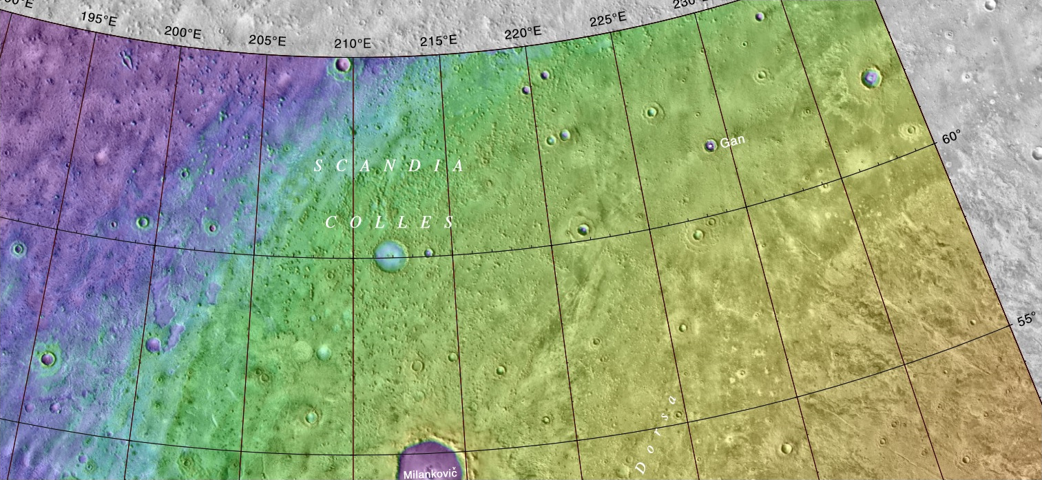 Map showing location of Maiankovic crater and other features